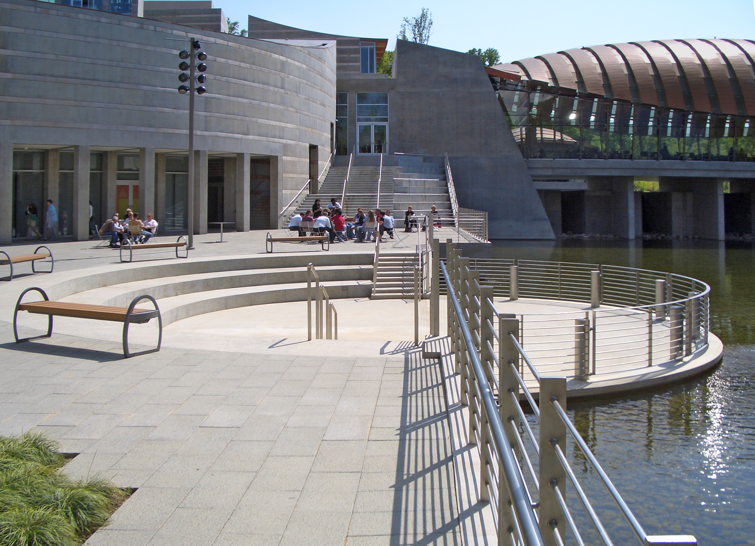 Crystal Bridges Museum of American Art, Bentonville, Arkansas USA, architect Moshe Safdie